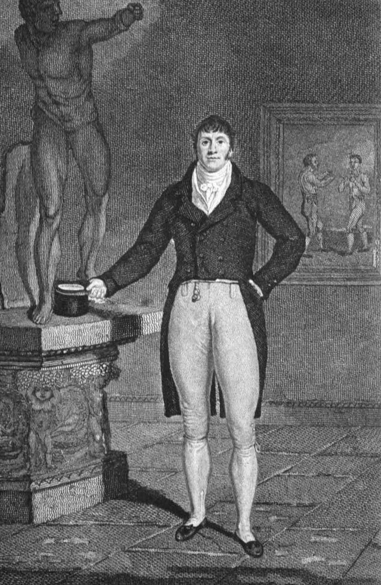 John Jackson, English boxer